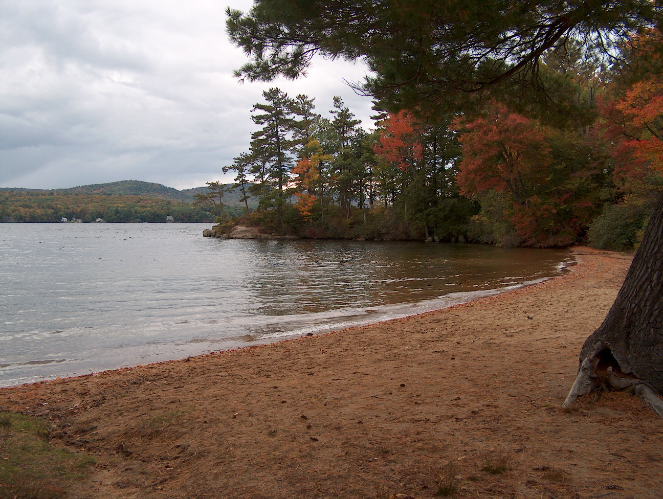 View from the main beach (undeveloped) of Ahern State Park on Winnisquam Lake, Laconia, fall 2008